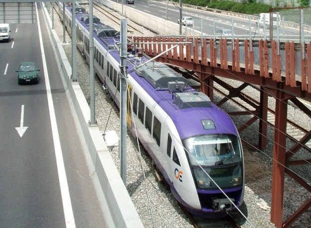 A Desiro EMU5 of OSE leaves Neratziotisa Station with suburban service 4124 to Athens International Airport.